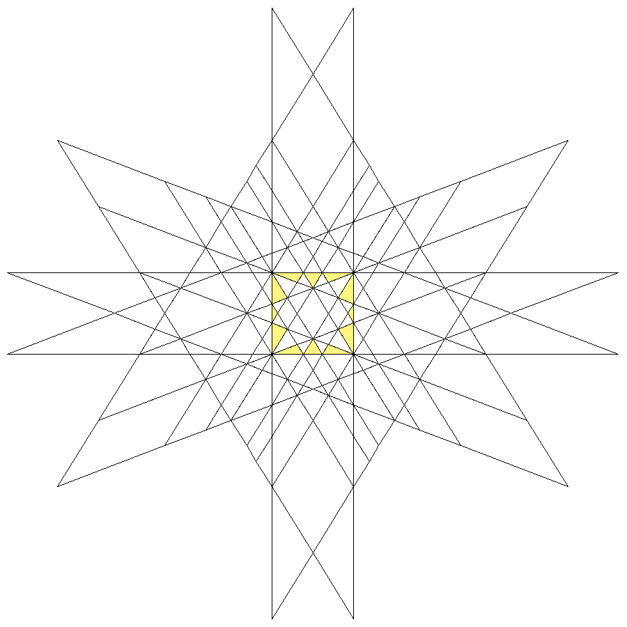 The yellow area in the stellation image corresponds to the gray cube face in this view of the compound. Compound of five cubes as stellation of the rhombic triacontahedron